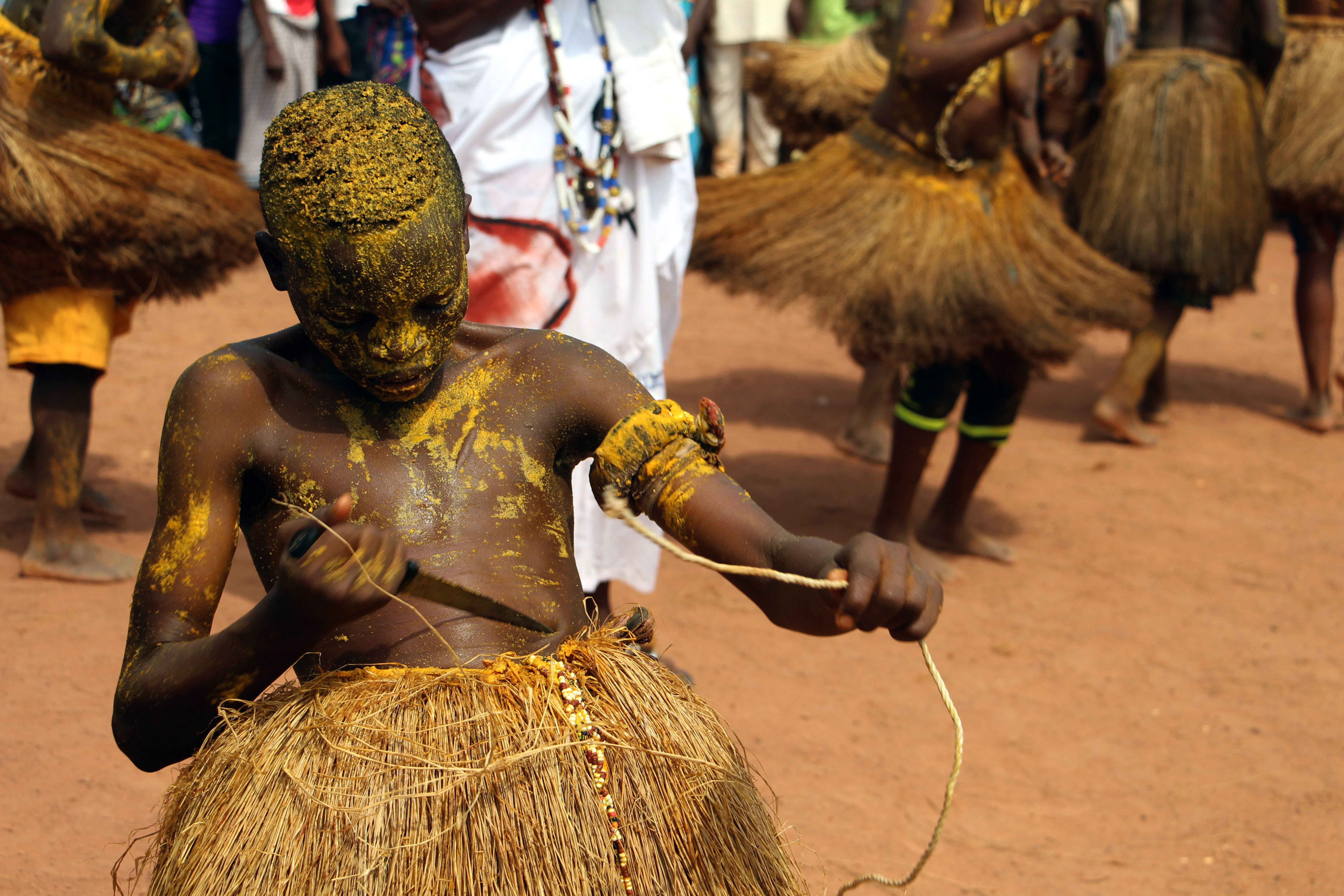 in the footsteps of his parents this child cuts his skin without being injured This is an image with the theme "Africa on the Move or Transport" from: Benin